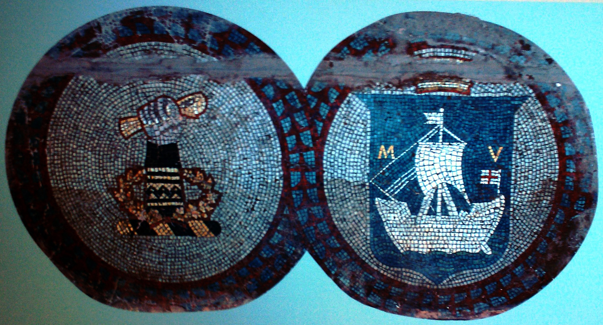 Monmouth Library floor plaques that are on wall in 2012